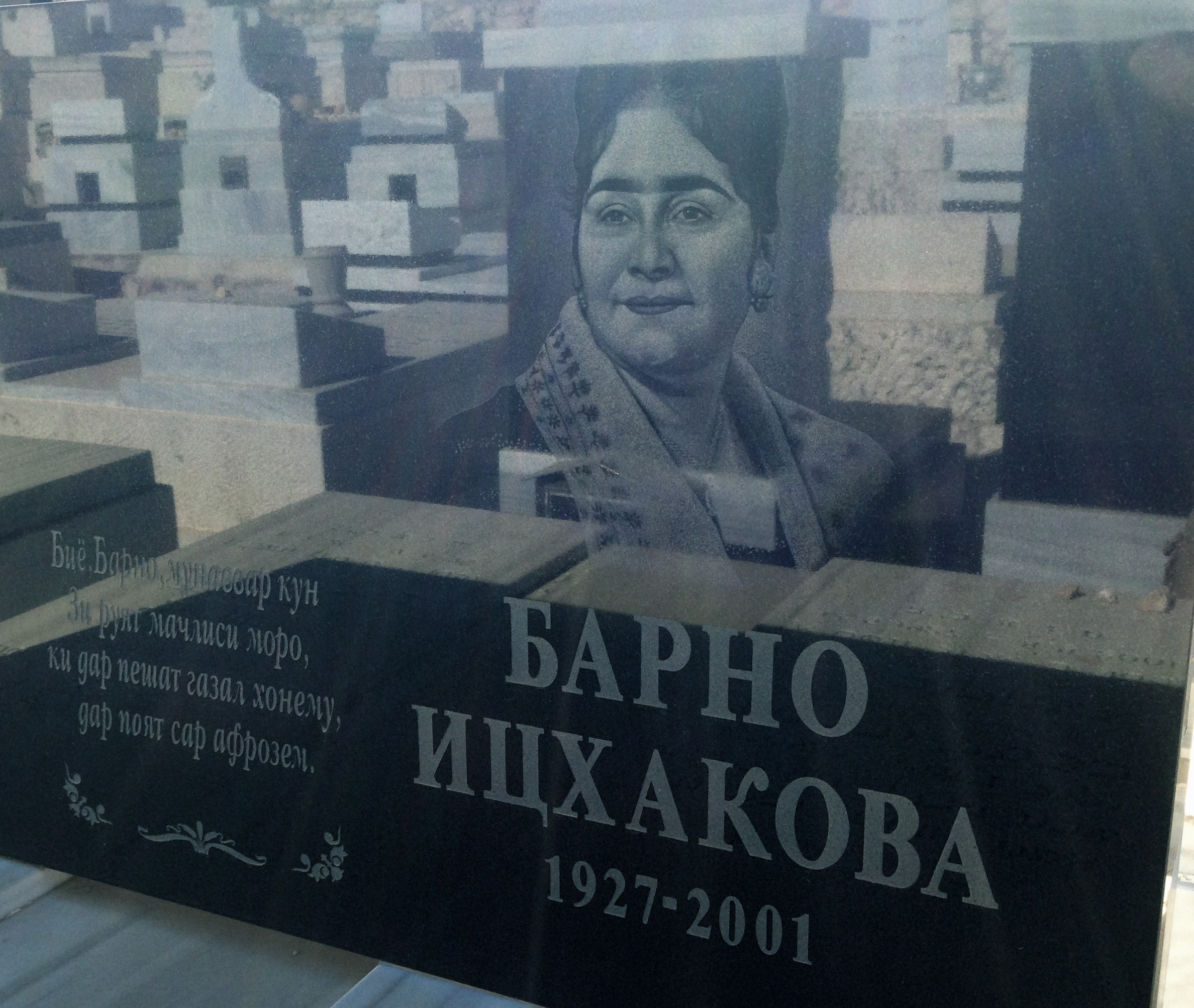 Barno Iskhakova's grave and headstone at the Har HaMenuchot Cemetery in Jerusalem, Israel